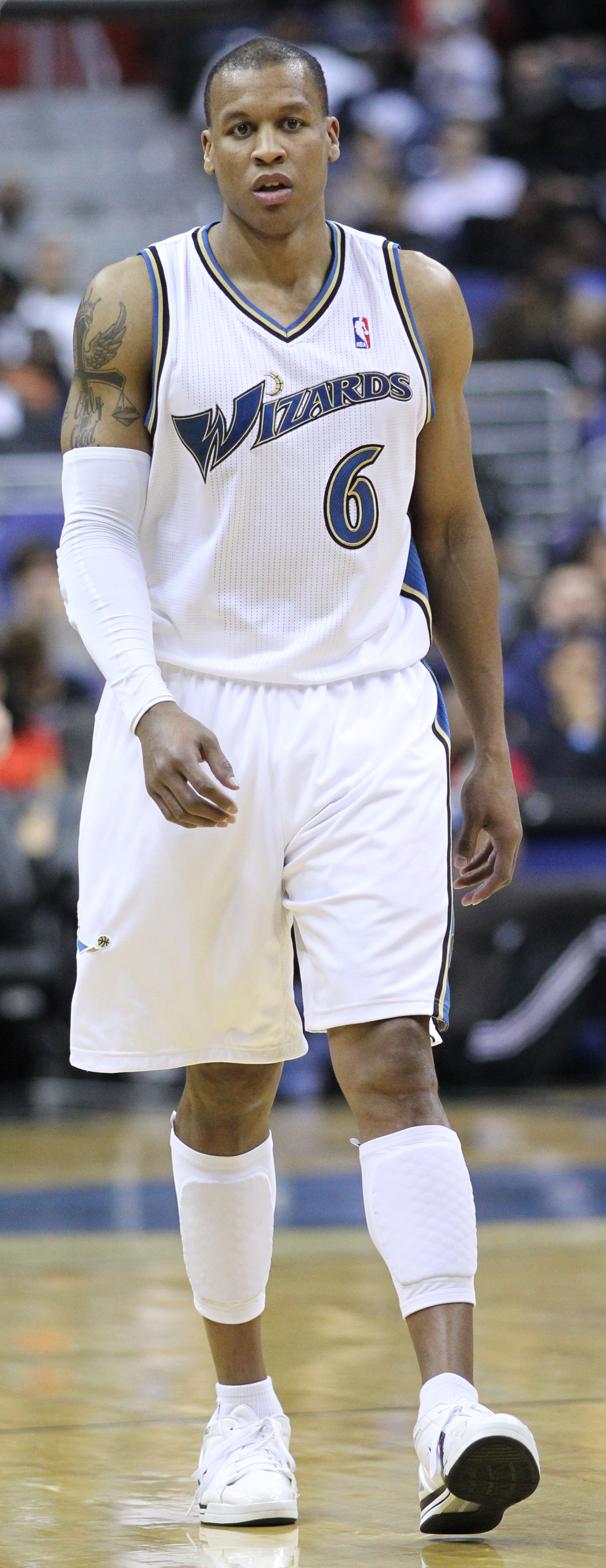 Wizards v/s Warriors 03/02/11